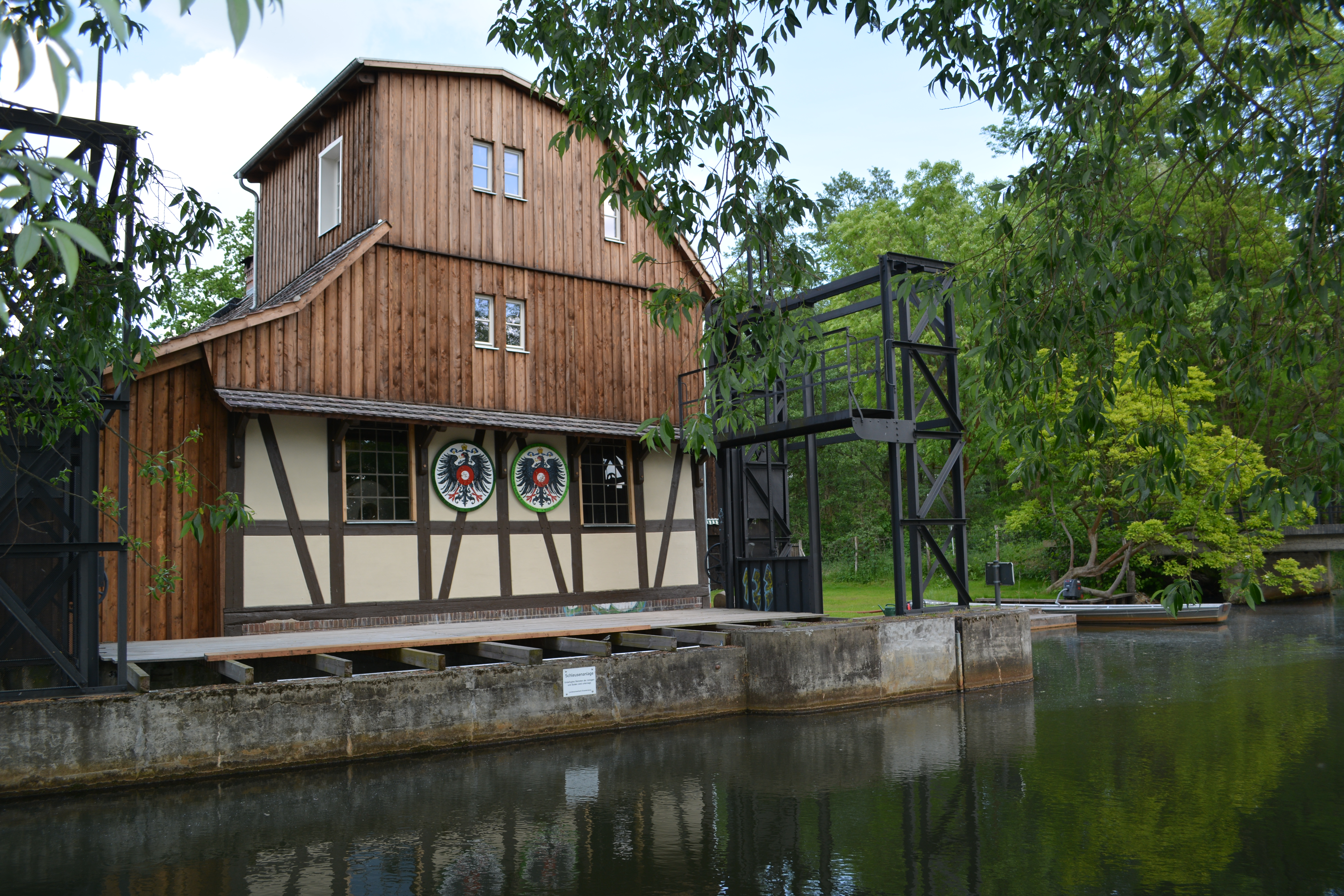 Raddusch-Buschmühle im Mai 2016